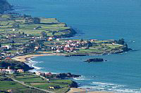 La Isla Beach at Colunga, Principado de Asturias, España